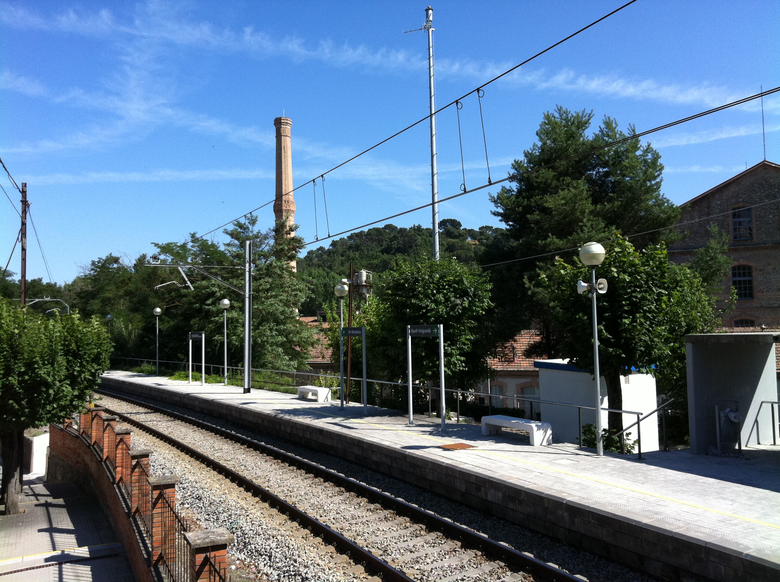 Borgonyà was a former industrial colony in the margin of the river Ter, in Osona, Catalonia